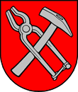 Coat of Arms of Revúca city in Slovakia